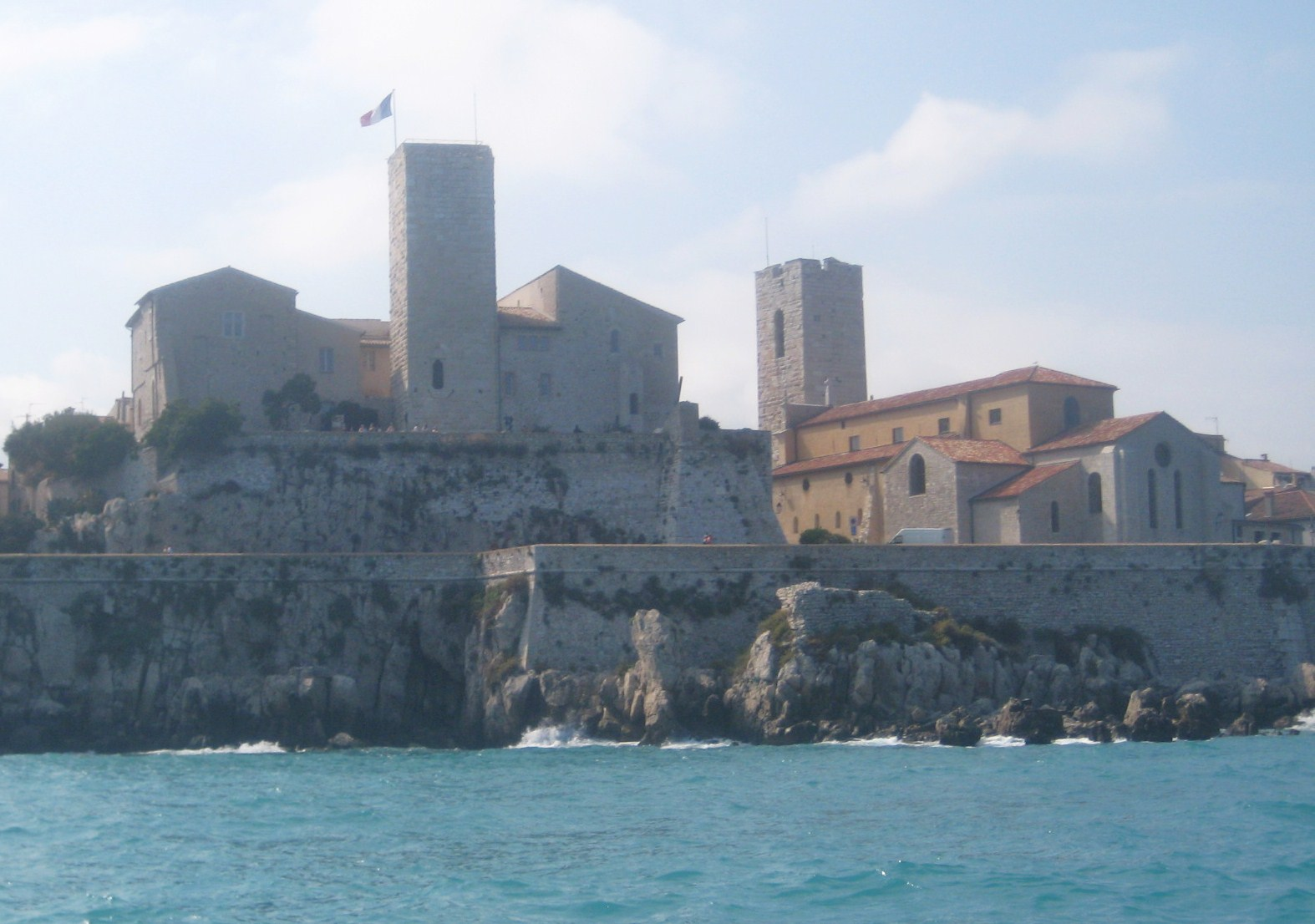 Description chateau grimaldi musee picasso cathedrale Antibes Date22 October 2011Sourcemon appareil photoAuthorAimelaimePermission (Reusing this file) chateau grimaldi musee picasso cathedrale Antibes